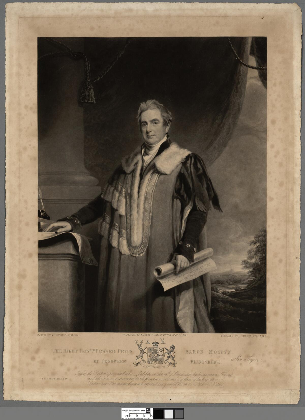 A portrait from the Welsh Portrait Collection at the National Library of Wales. Depicted person: Edward Lloyd, 1st Baron Mostyn – British politician